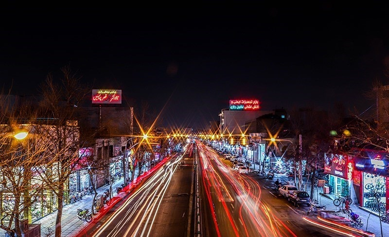 Gomrok neighbourhood in Tehran